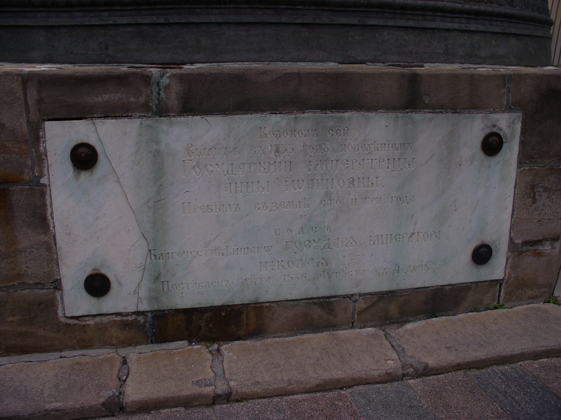 Tsar Bell. Moscow, Russia.